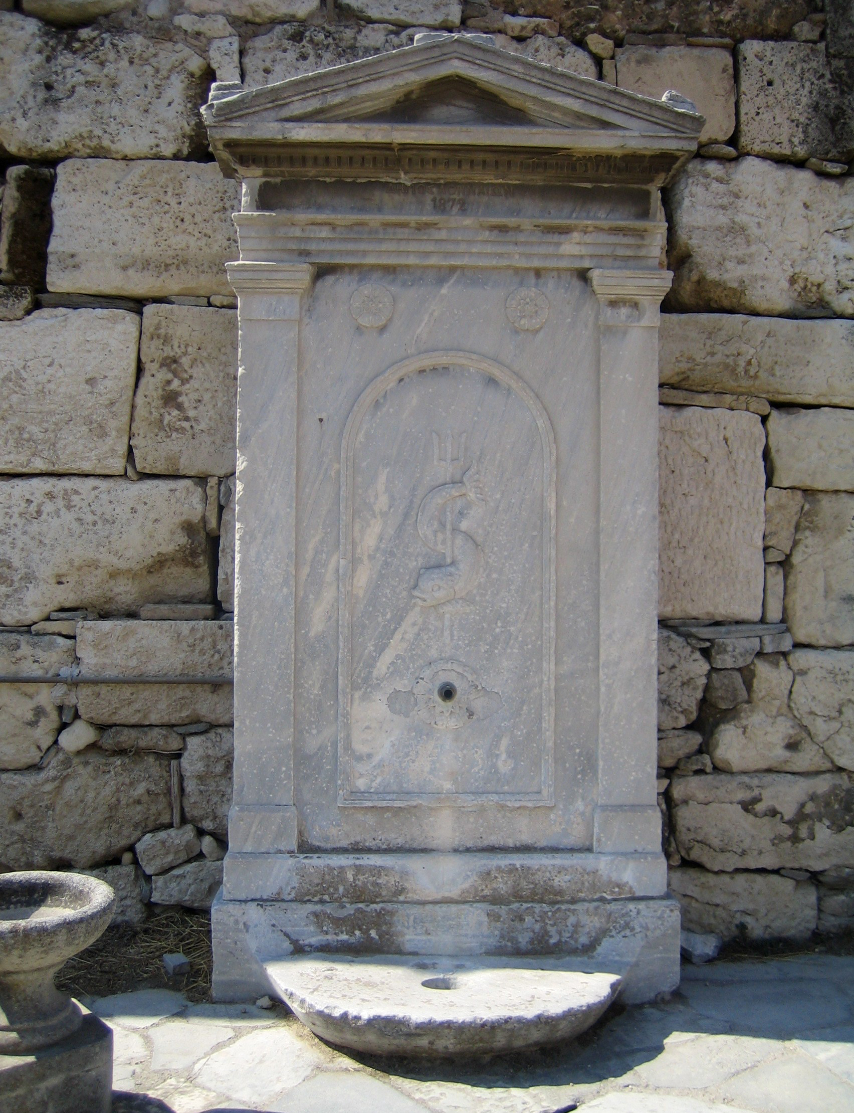 Later well near the place of the ancient Nymphaeum fountain and Byzantine Agioi Apostoloi church. Ancient Agora of Athens.